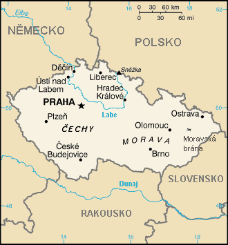 map of Czech Republic, translated from CIA World Factbook (PD)